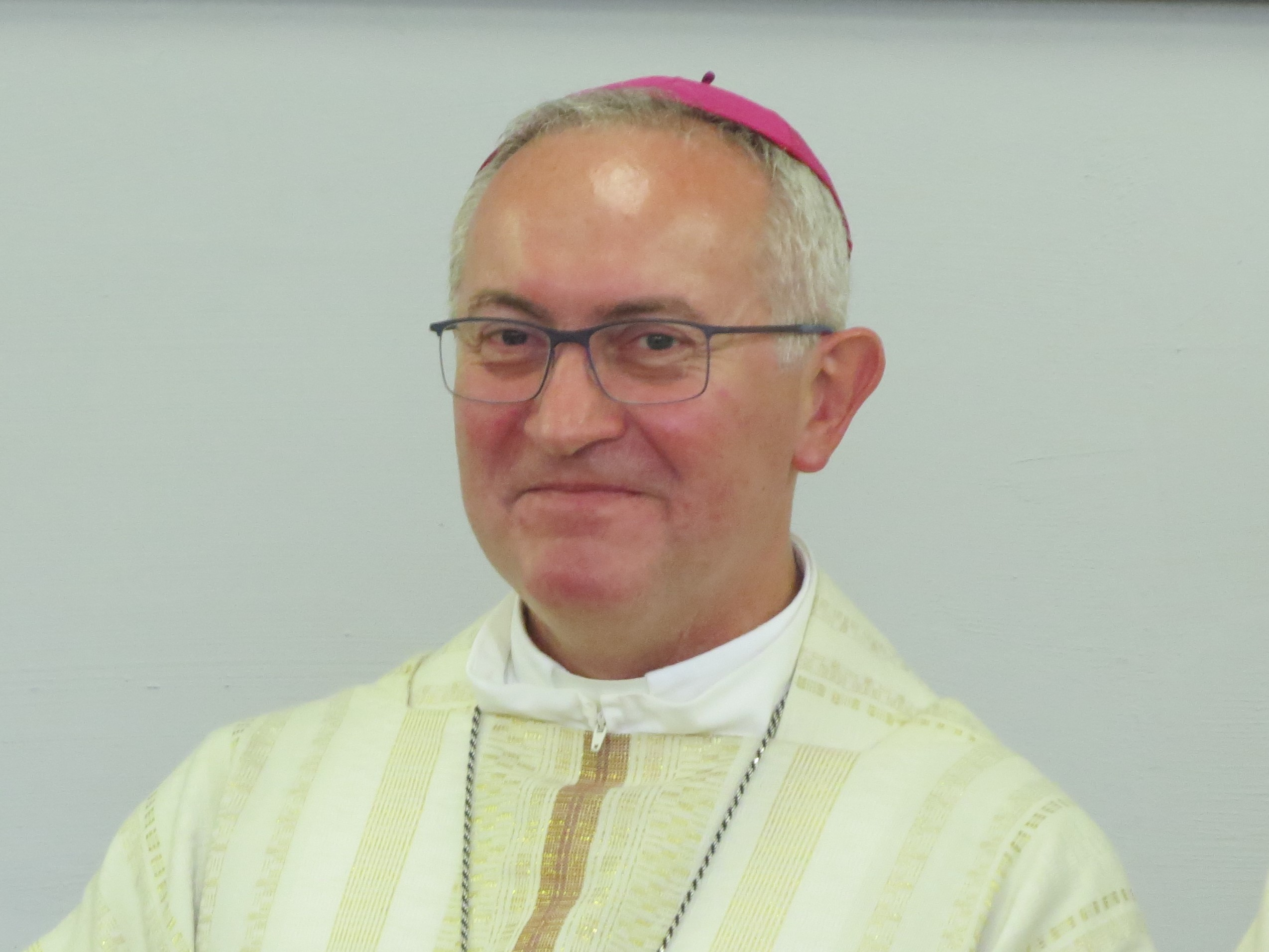 Anton Leichtfried at blessing of Feuerwehrhaus and Musikerheim St. Georgen an der Leys